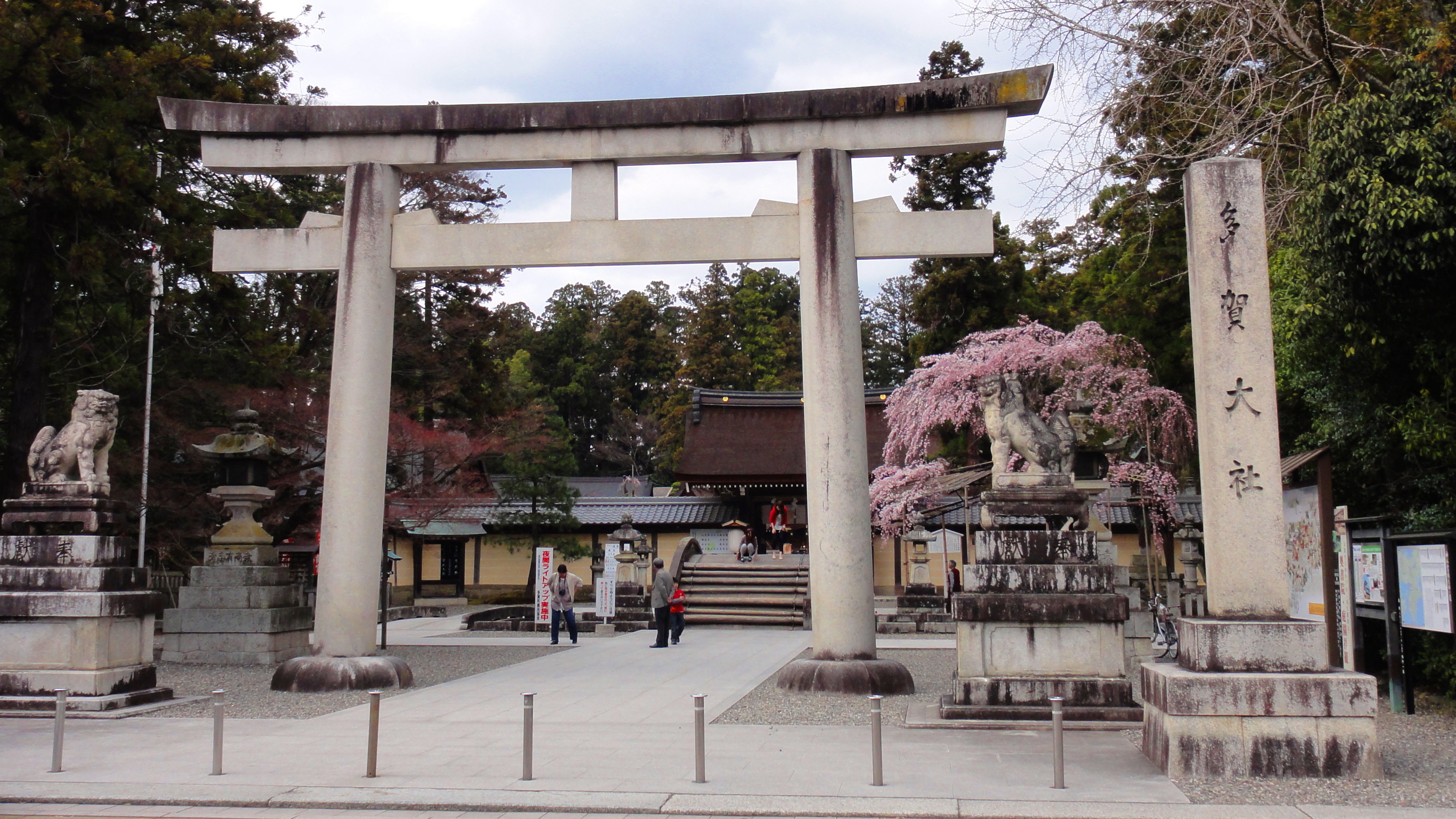 entrance to Taga-taisha shrine,shiga prefecture,Japan